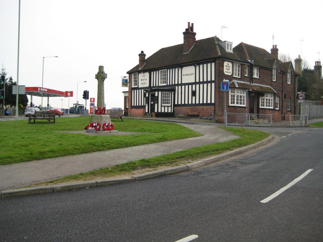 South Mimms: The White Hart & The War Memorial The White Hart is a McMullen's public house at the junction of Blanche Lane with St Albans Road. Despite appearances there has been a White Hart inn here for a long time. In the 1881 Census the following occupiers were enumerated. Charles Wright JONES, Head of the household, married, age 40, born Haddom, Kent, Occupation Licensed Victualler Emma M JONES, Wife, married, age 30, born Kensington Emily Susan JONES, Daughter, age 19, born Barnet, Hertfordshire Florence C JONES, Daughter, age 17, born South Mimms, Middlesex Jessie A JONES, Daughter, age 10, born South Mimms, Middlesex, Occupation Scholar Charles Wright JONES, Son, age 7, born South Mimms, Middlesex, Occupation Scholar Jenis E JONES, Son, age 5 months, born South Mimms, Middlesex David DAY, Unmarried, age 22, born Roestock, Hertfordshire, Occupation Ostler ? ATTERBURY, Unmarried, age 17, born Mitcham, Surrey, Occupation Domestic Servant These names and details are as transcribed from the original census returns by the Church of Jesus Christ of Latter-day Saints.